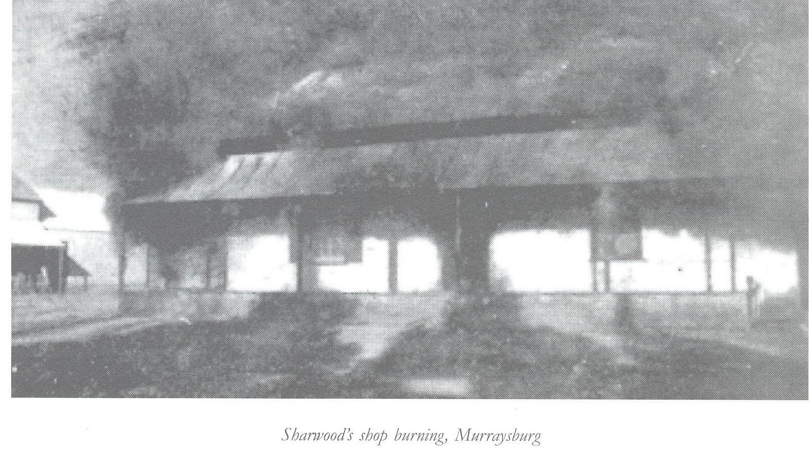 Sharwood's shop in the Cape Colony. Burnt by Gideon Scheepers in 1900.